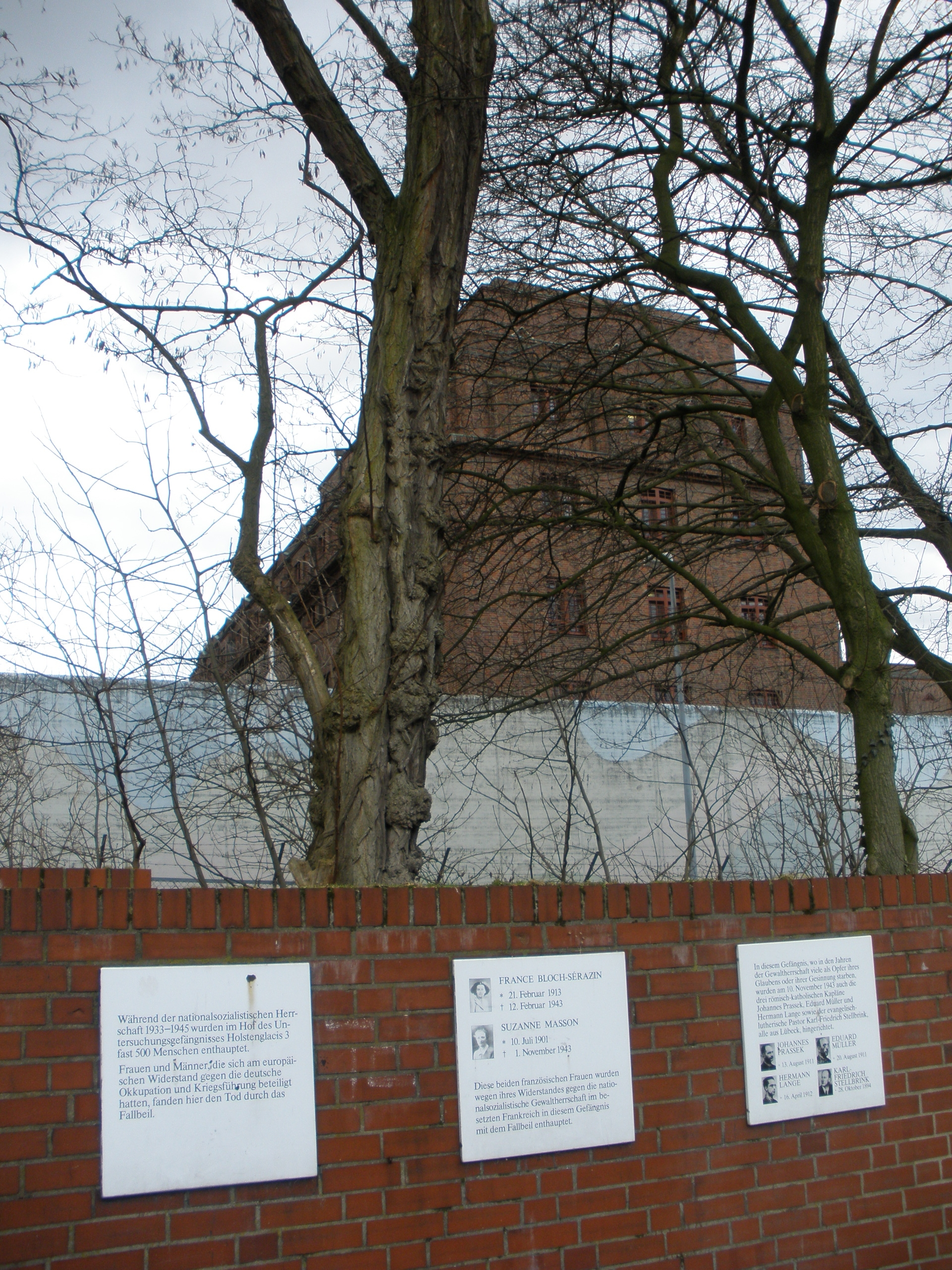 Commemorative plaque at the backside of Untersuchungshaftanstalt Hamburg, Germany.